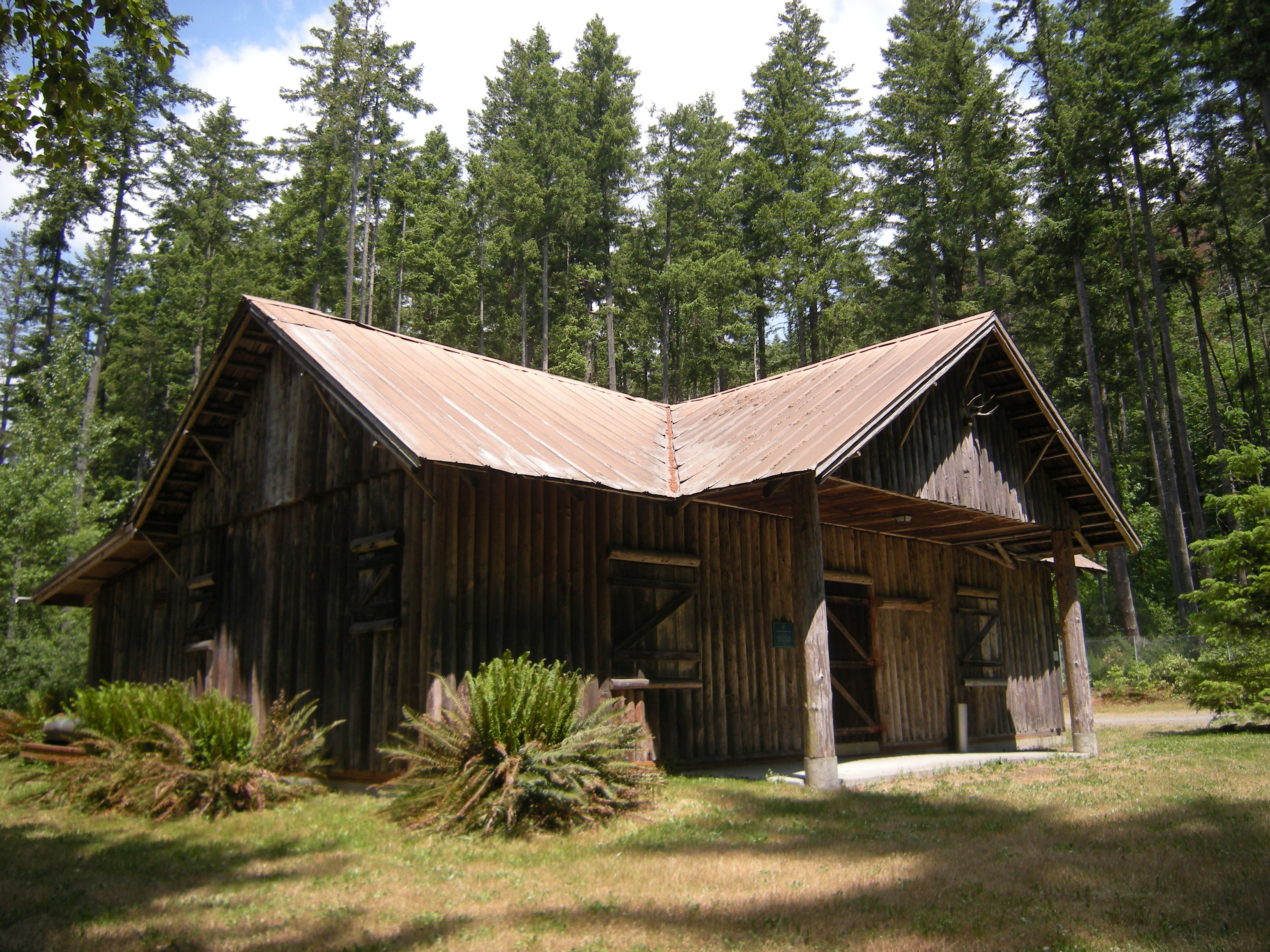 Issaquah Sportsmen's Club lodge, Issaquah, Washington. The building was built by the Works Progress Administration (WPA) in 1937. It is listed on the National Register of Historic Places and as a King County landmark.